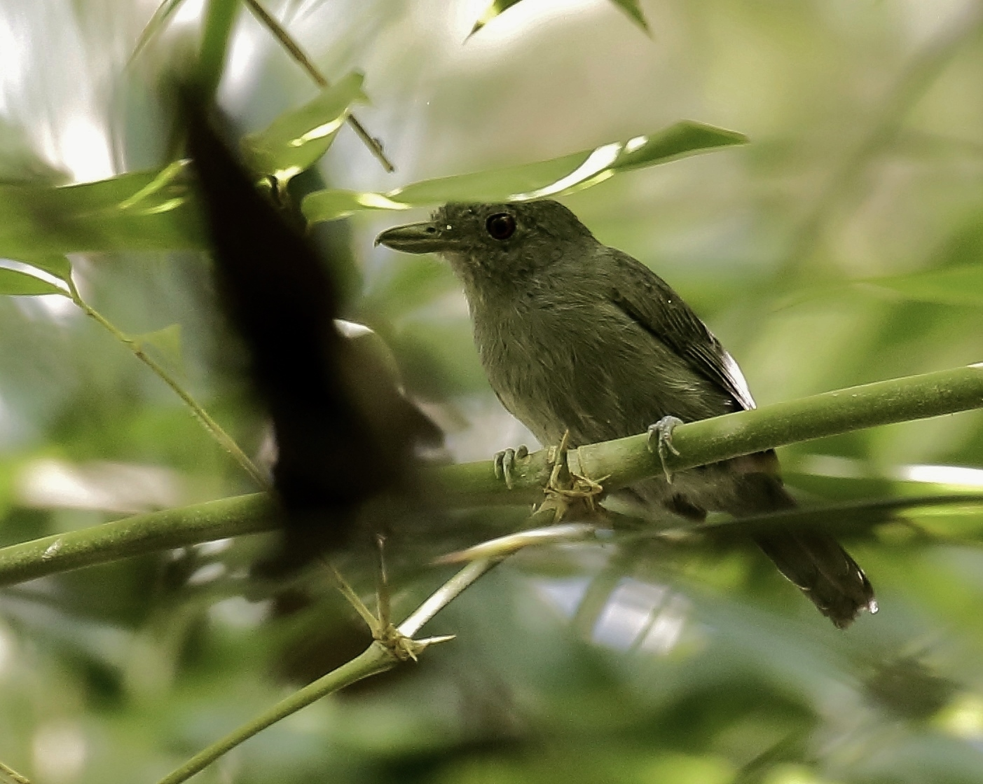 Mouse-colored Antshrike (male) at Rio Branco, Acre, Brazil